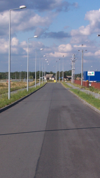 Author: Yves6 - European Union Street, Industrial Park in Solec Kujawski, Poland